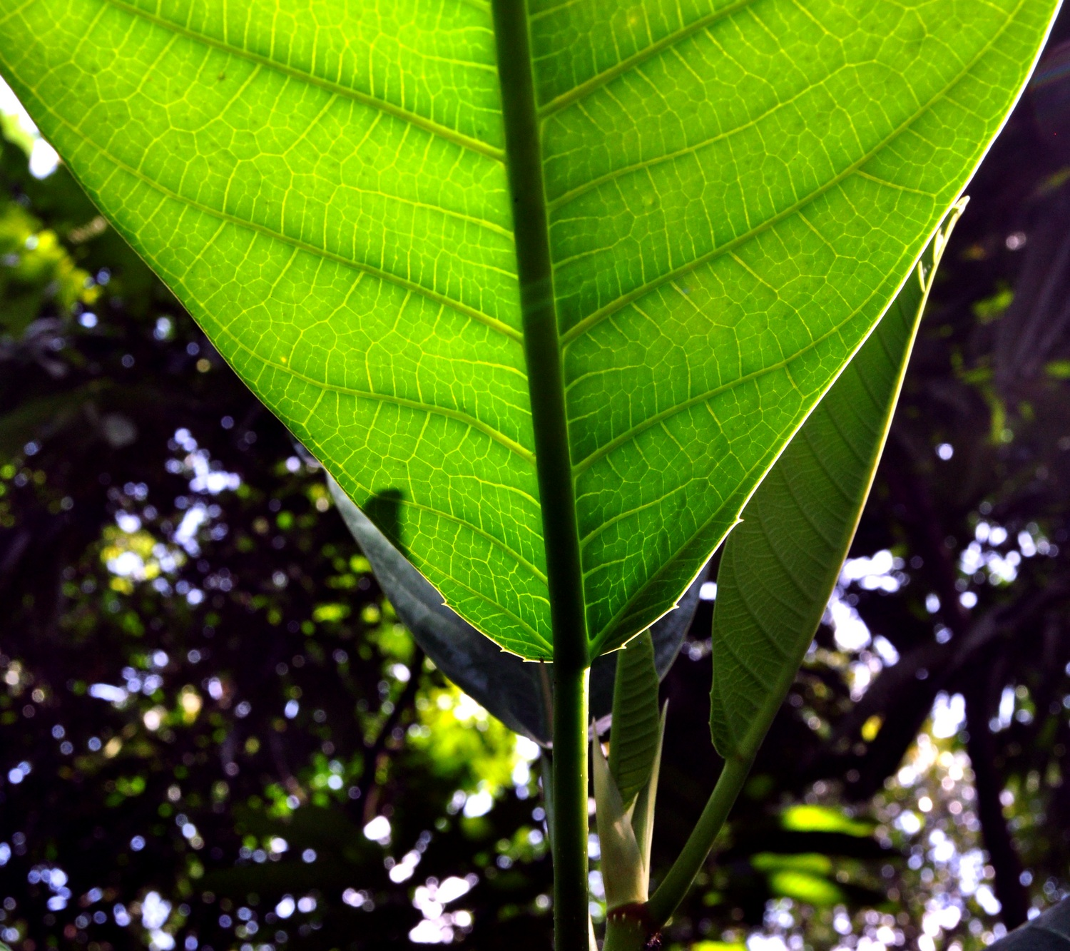 Venation at the base of a Ficus leaf. Photographed in Bogor, West Java, Indonesia.